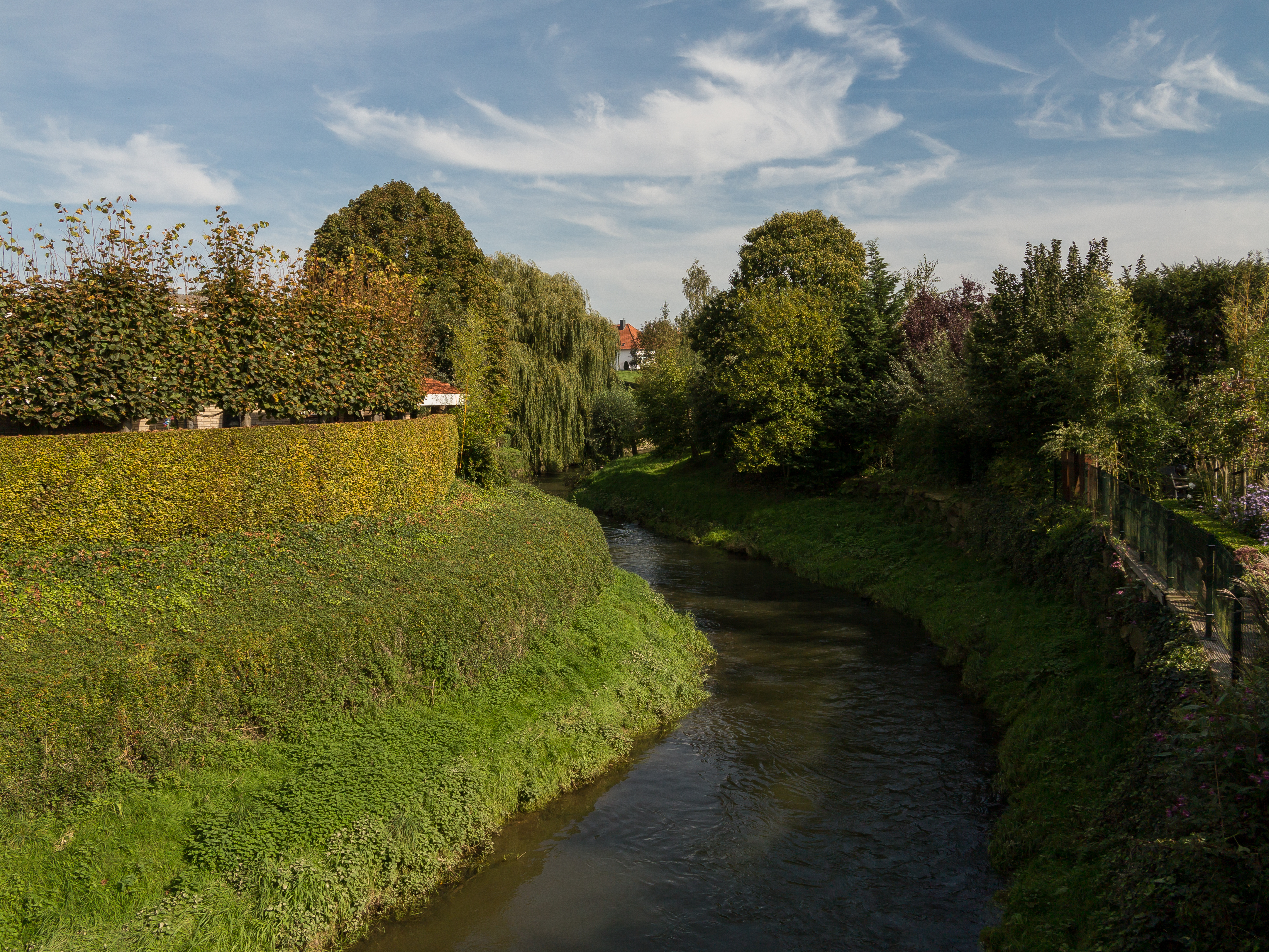 Schin op Geul, river de Geul